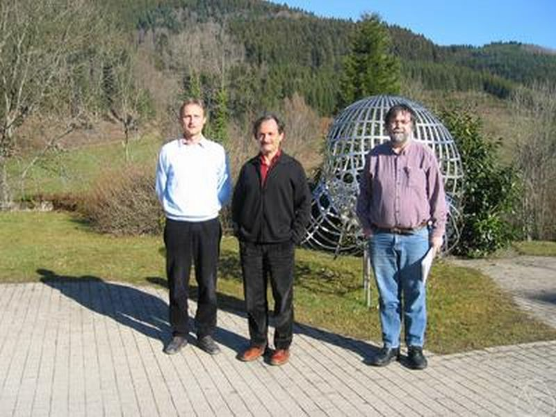 From left: Gunter Malle, Michel Broué, Jean Michel, Oberwolfach 2004